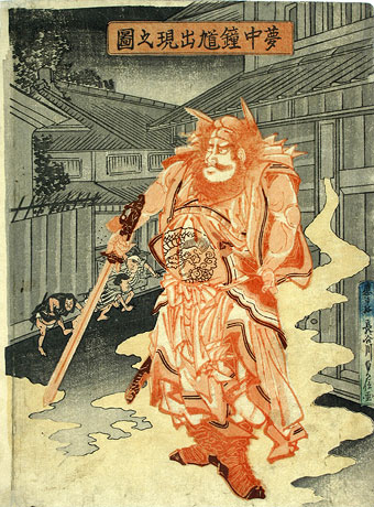 Skôki Appearing in a Dream (Muchû Shôki shutsugen no zu), chûban woodblock print by Sadanobu Hasegawa I, c. 1840